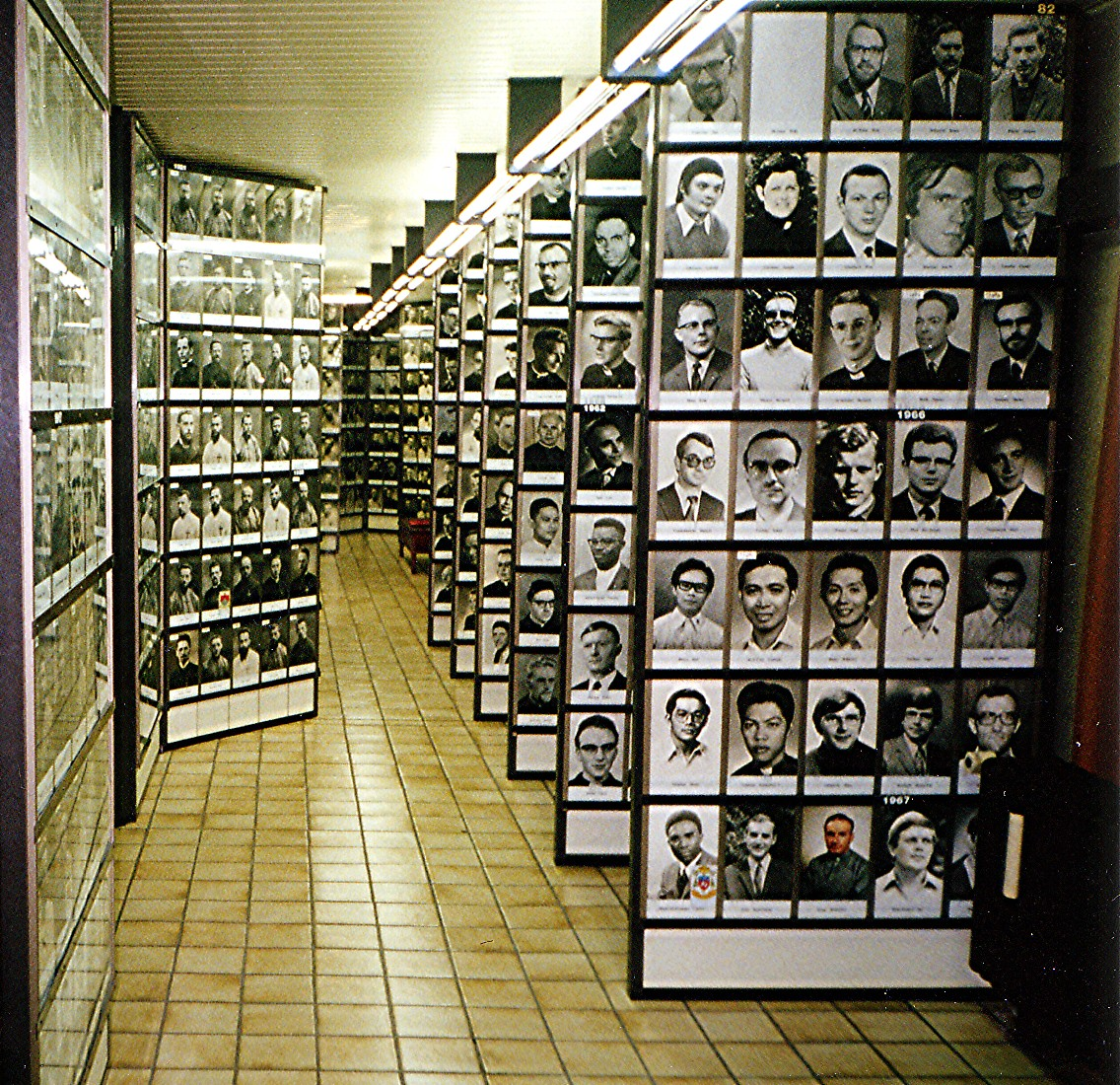 Pictures of CICM Missionaries at the Congregation's Scheut house in Brussels, Belgium.